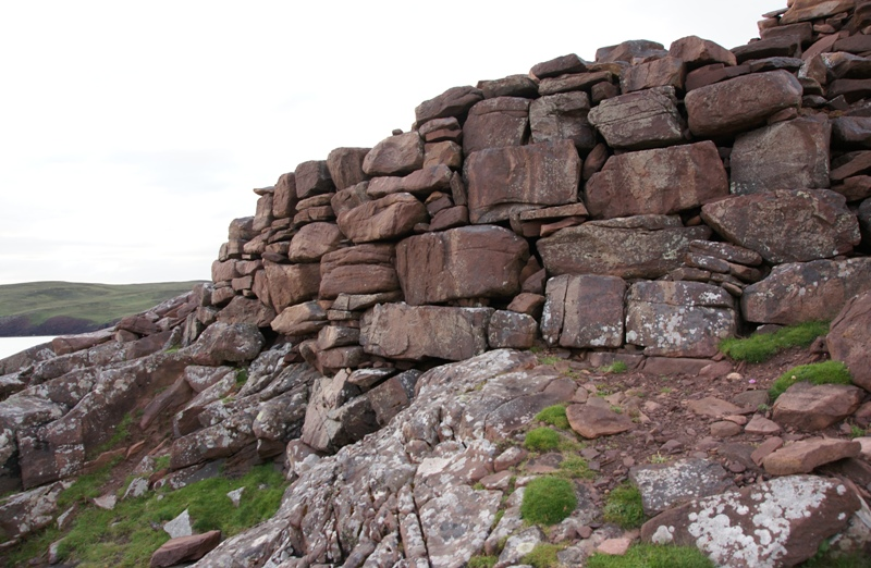 Clachtoll Broch, Sutherland, Scotland